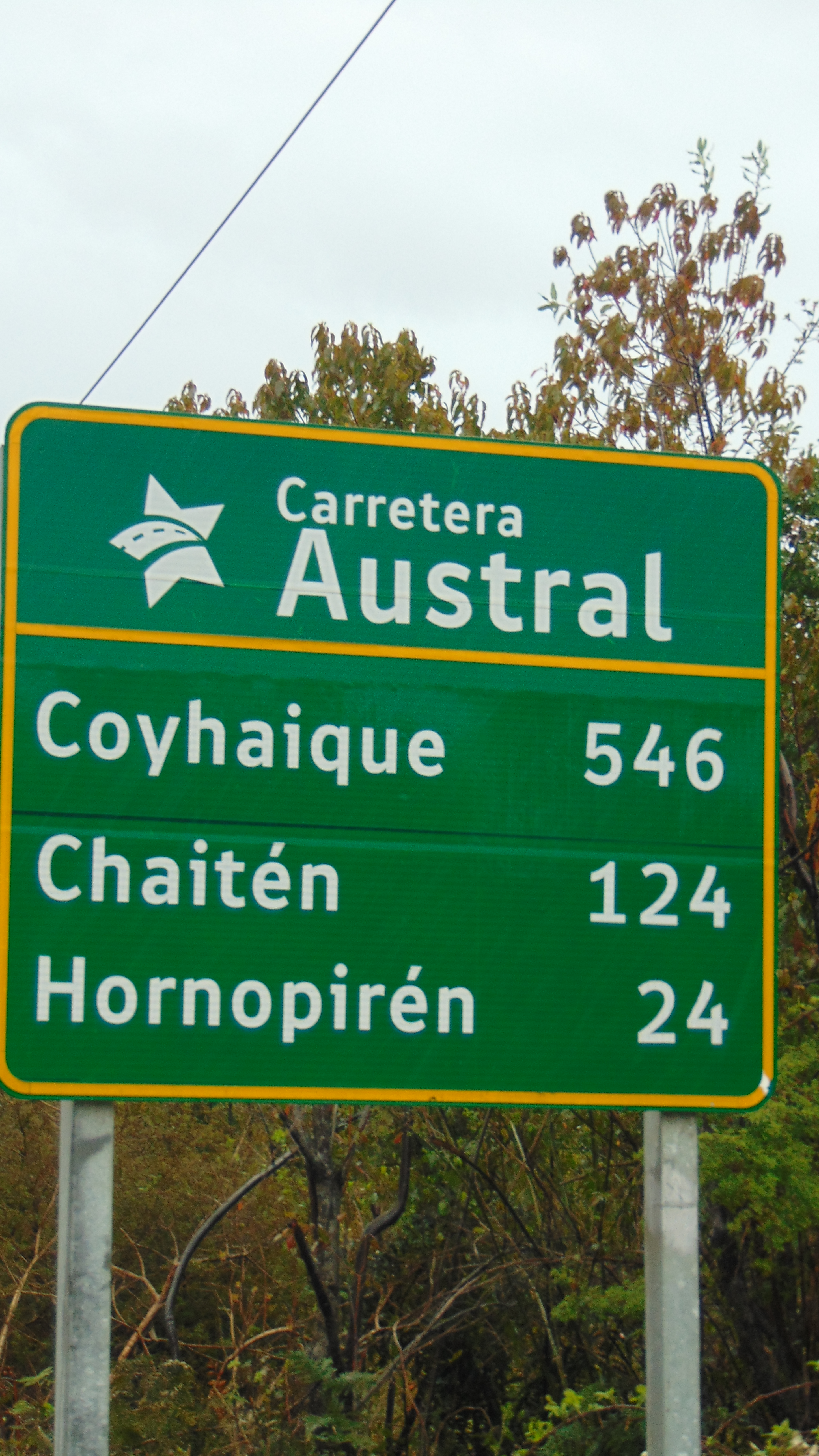 Carretera Austral Distances Sign, 2010s style